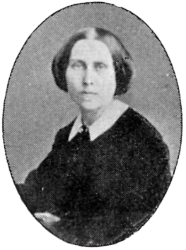 Image scanned from the book "Svenskt Porträttgalleri XX - Arkitekter, Bildhuggare, Målare m.fl. " ("Swedish Portrait Gallery XX - Architects, Sculptors, Painters, ") published 1901